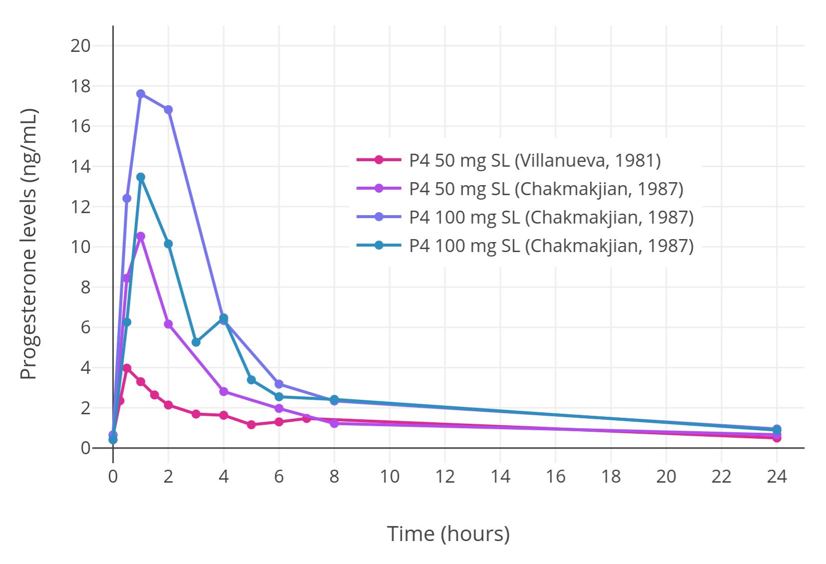 Levels of progesterone after a single sublingual dose of 50 or 100 mg progesterone in a suspension in women. Levels were measured using radioimmunoassay (RIA). Sources of the values: (June 1987). "Bioavailability of progesterone with different modes of administration". J Reprod Med 32 (6): 443–8. PMID 3612635. (April 1981). "Intravaginal administration of progesterone: enhanced absorption after estrogen treatment". Fertil. Steril. 35 (4): 433–7. PMID 7215569.